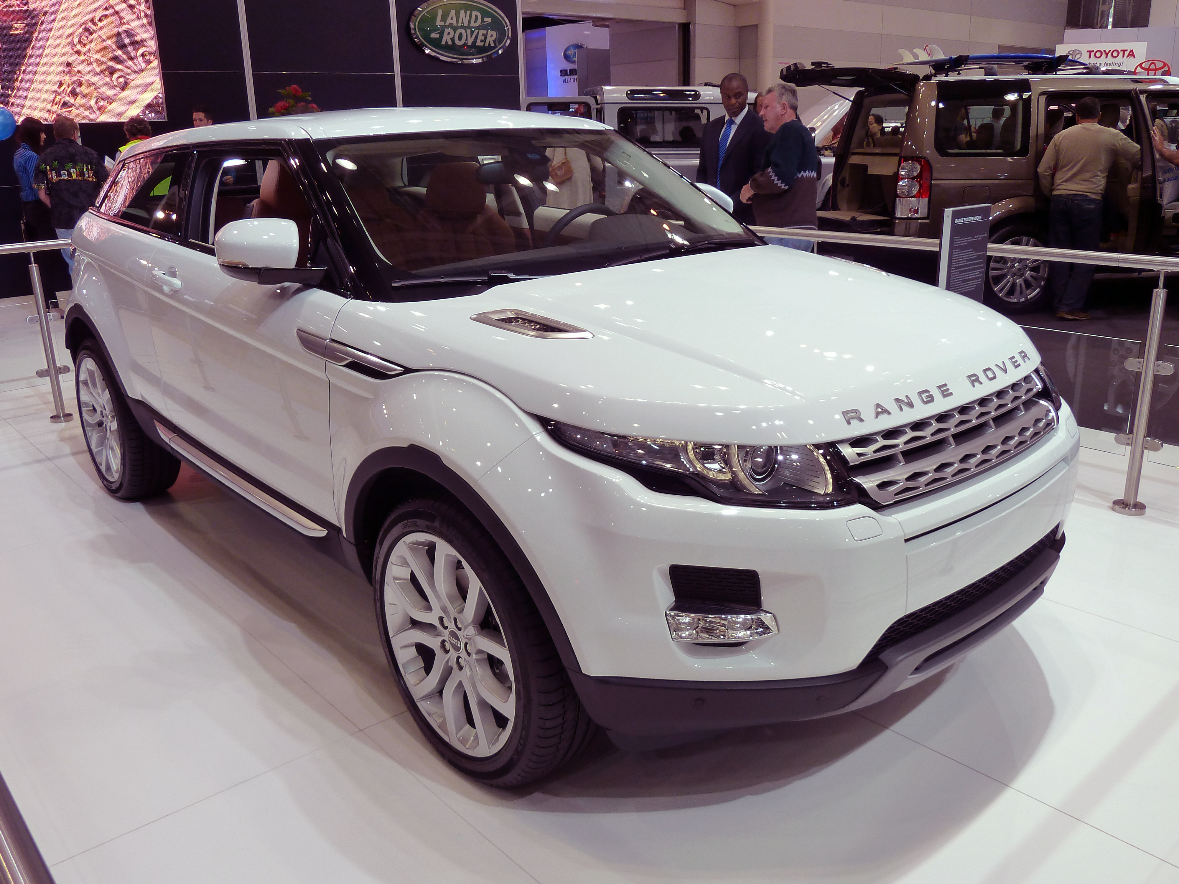 Range Rover Evoque 3-door wagon, prototype. Photographed at the 2010 Australian International Motor Show, Sydney, New South Wales, Australia.